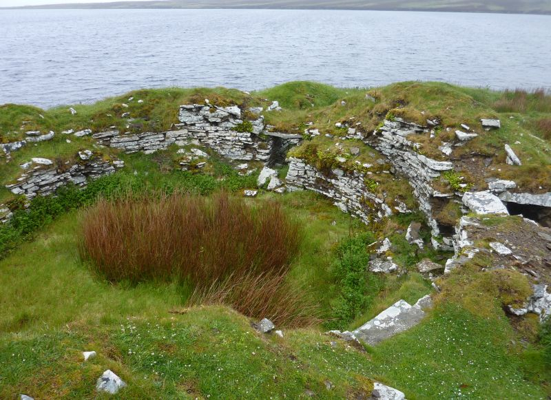 The Broch of Yarrows, near Wick, Caithness, Scotland.